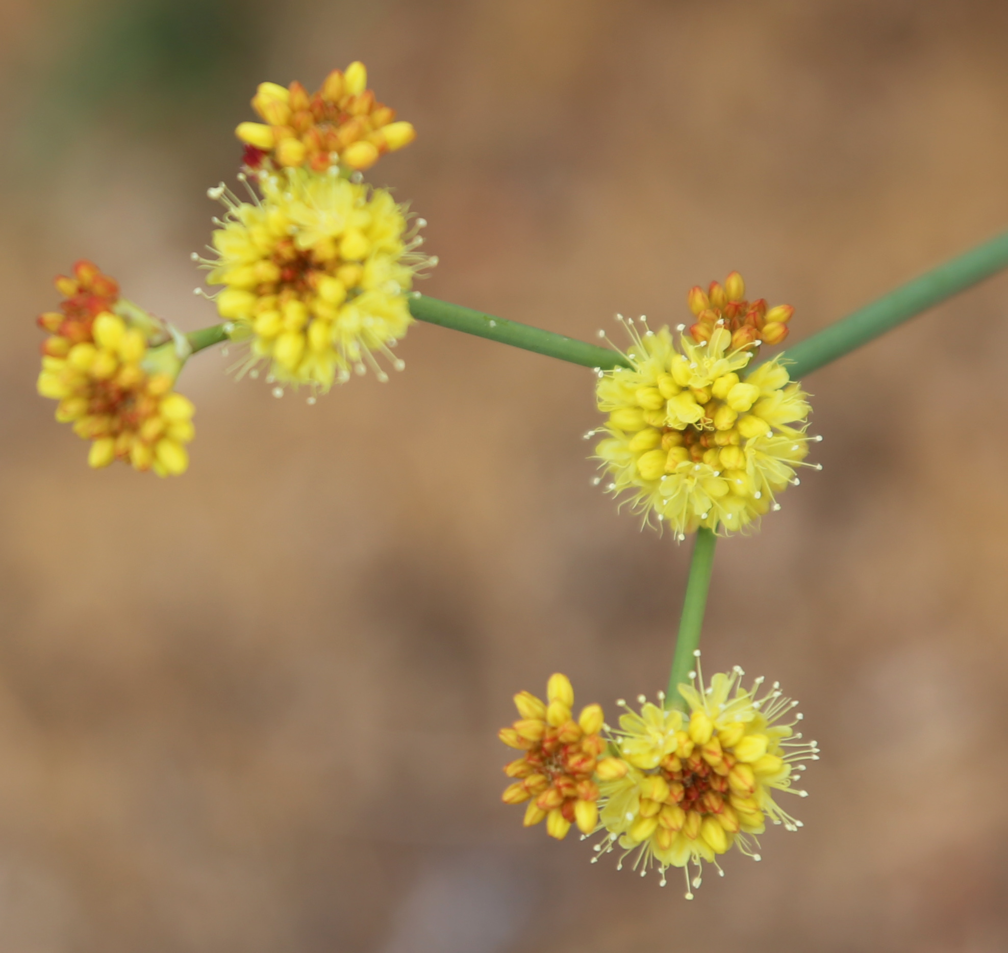 Yellow nude buckwheat (Eriogonum nudum-var-westonii) closeup of flowers in nodes and tips of stems. At 6600 ft in Momo County CA, Eastern Sierra Nevada USA.